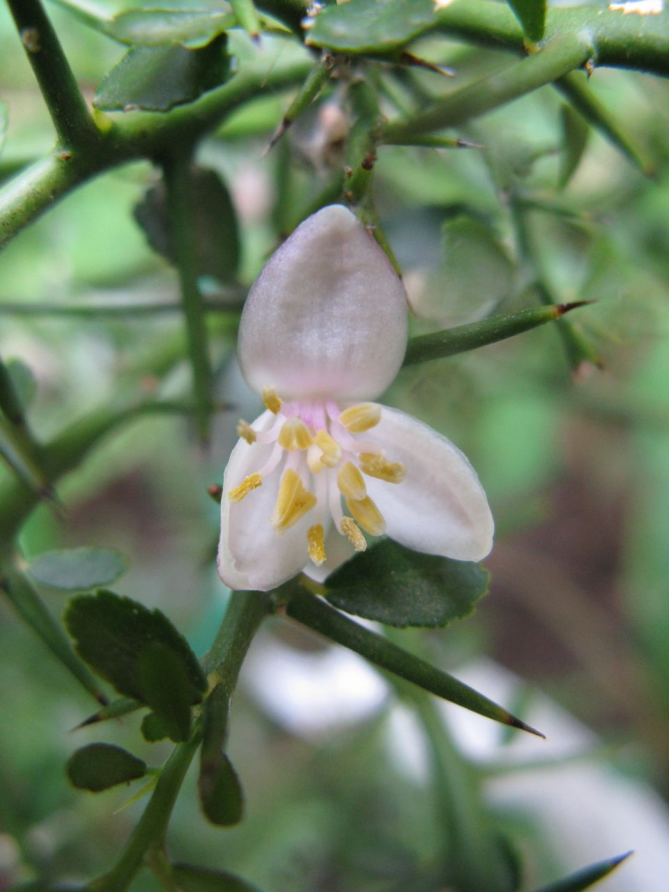 Cultivated plant